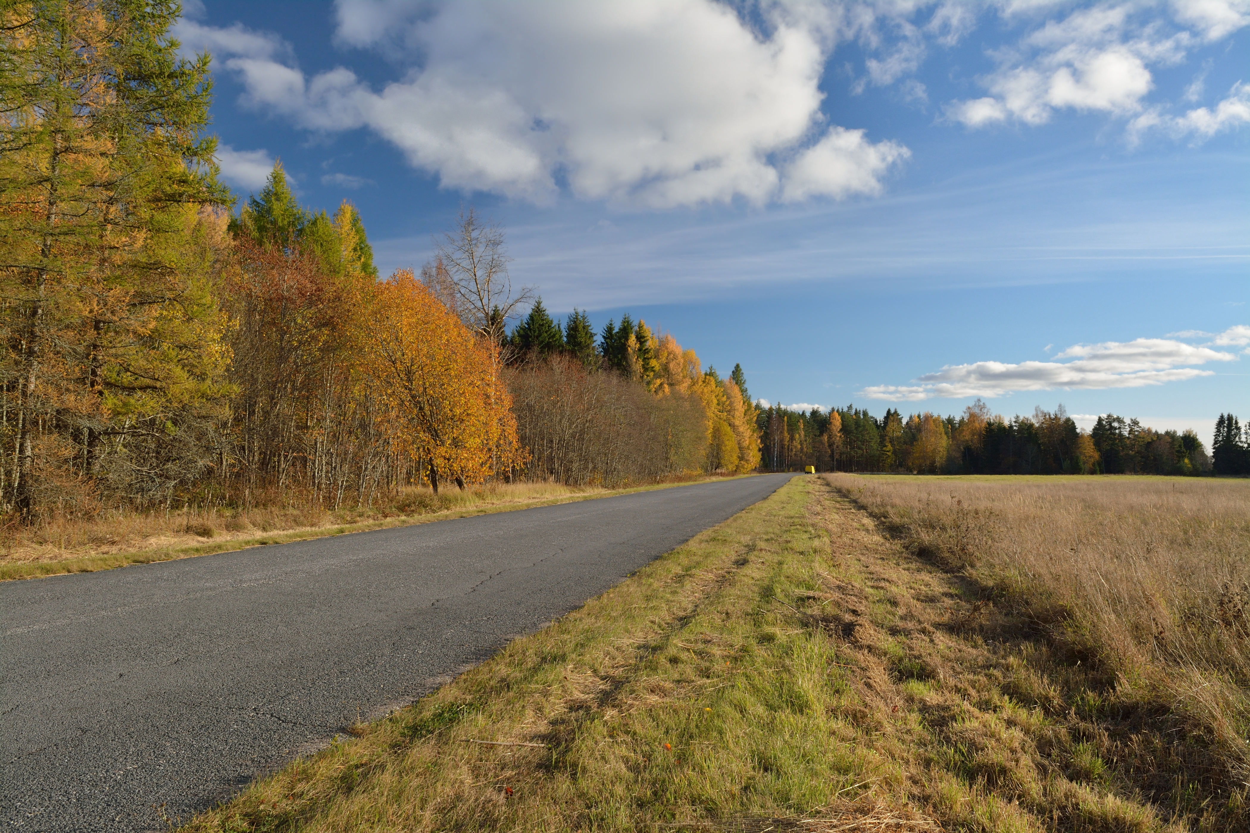 Võle-Vainupea-Kunda road in Võle village